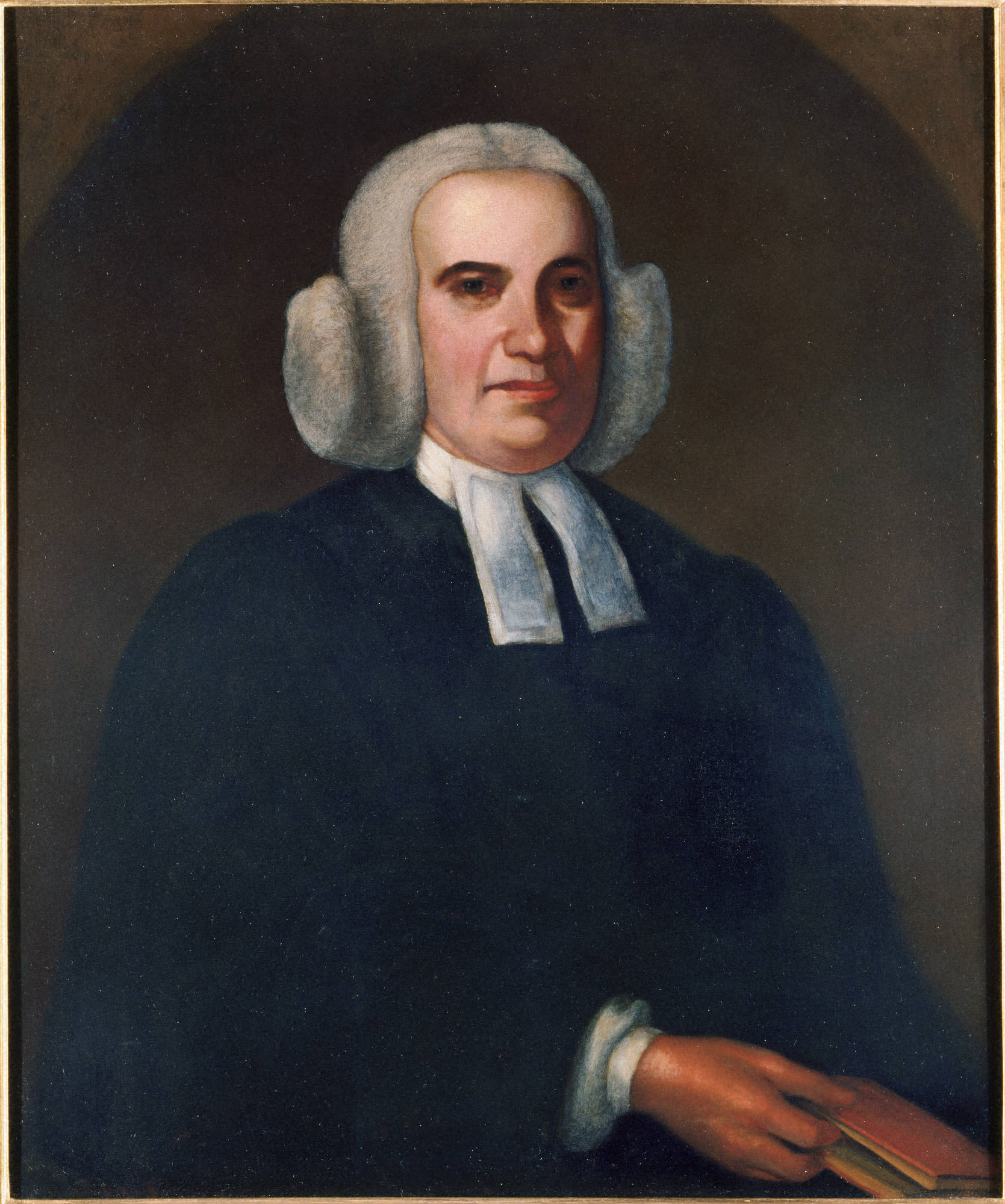 Charles Walker Lind, American, active 1850–1875, died 1882 after John Hesselius, American, 1728 - 1778 Samuel Finley (1715–1766), President (1761–66), 1870 Oil on canvas 76 x 63.5 cm. (29 15/16 x 25 in.) 101.6 x 90.2 cm. (40 x 35 1/2 in.) (frame) Princeton University, gift of Samuel Finley Breese Morse PP11